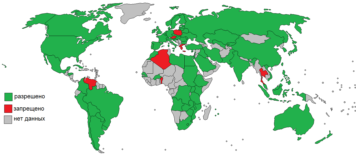 Laws regarding GM food. "Banned" - full ban or for scientific purposes only.